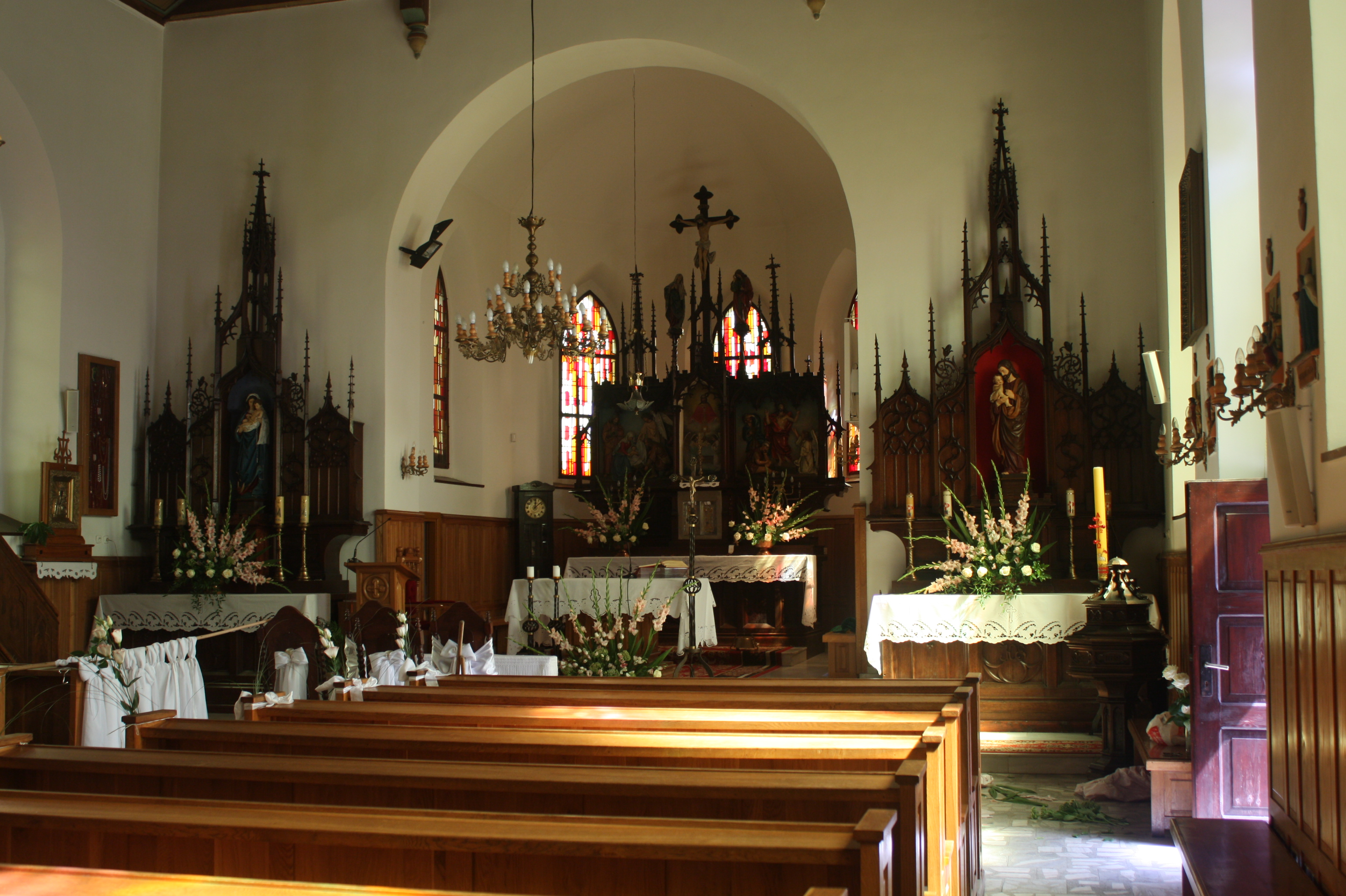 This photo of Warmian-Masurian Voivodeship was taken during Wikiexpedition 2012 set up by Wikimedia Polska Association. You can see all photographs in category Wikiekspedycja 2012. The making of this document was supported by Wikimedia Polska.